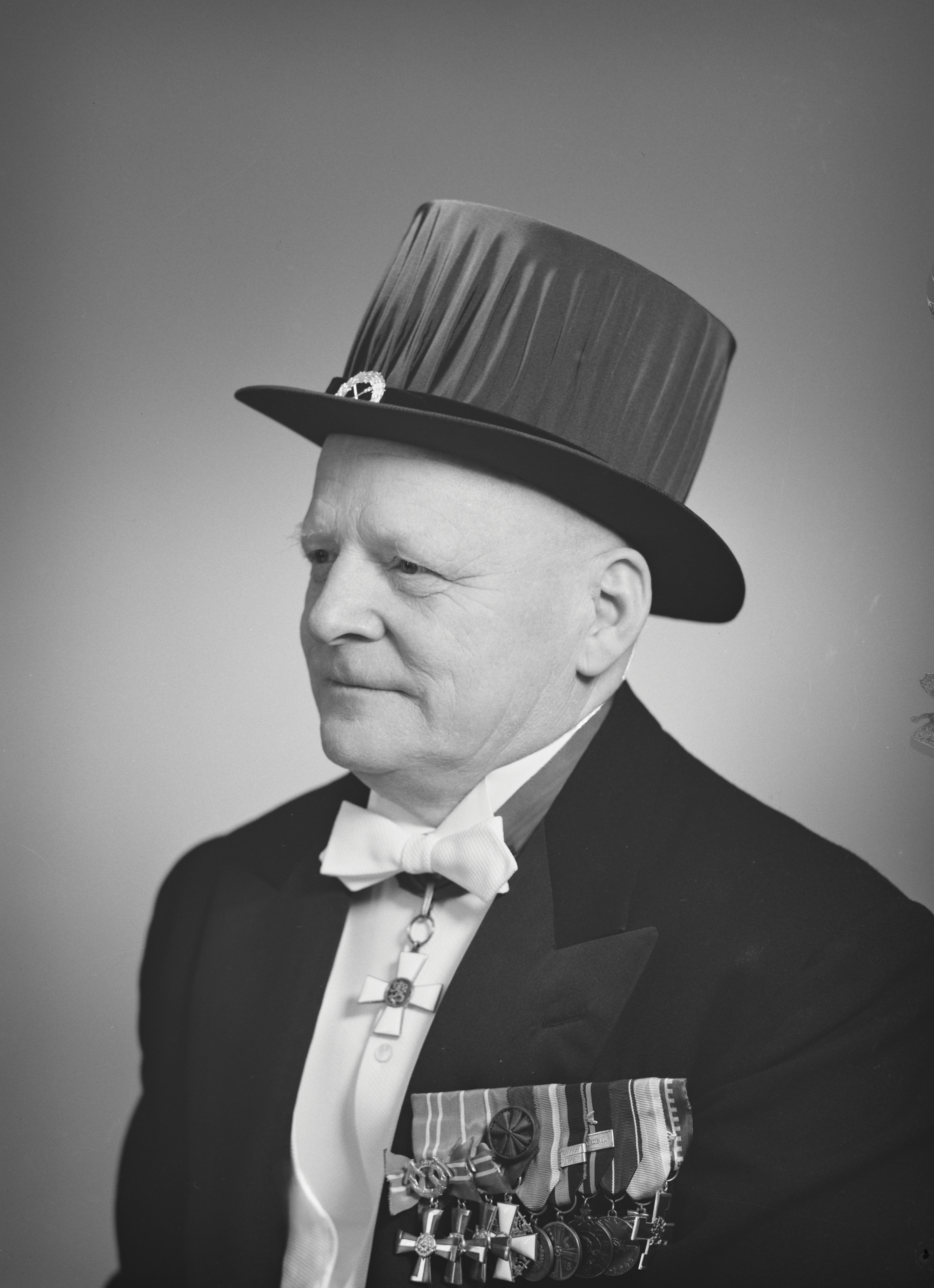 Photograph of the Finnish lawyer and professor Huugo Raninen (1899–1987).